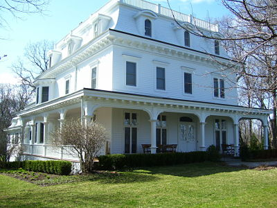 Exterior front of C.H. DeLamater's "Vermland" mansion built on Eaton's Neck in 1865. Today it is known as "The Bevin House". In 1942 the house was rented for several weeks by aviator-writer Antoine de Saint-Exupéry, and was one of the locations where he wrote The Little Prince.